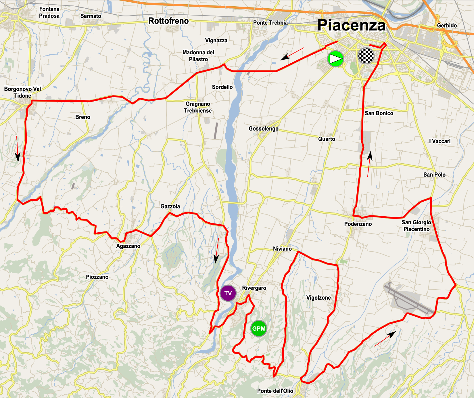 Map of stage 4 of Giro donne 2018.